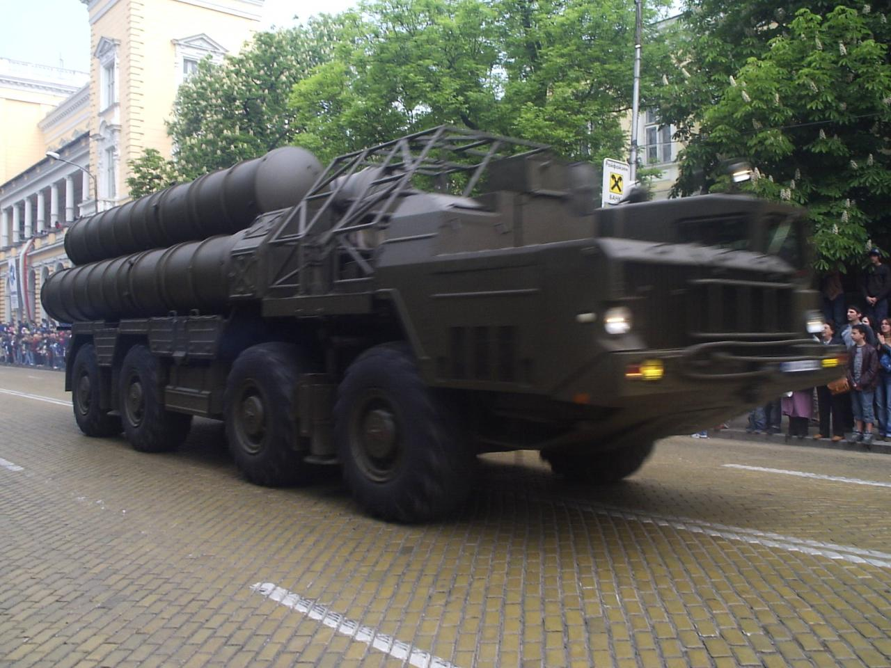 An S-300 launcher on a parade in Sofia.